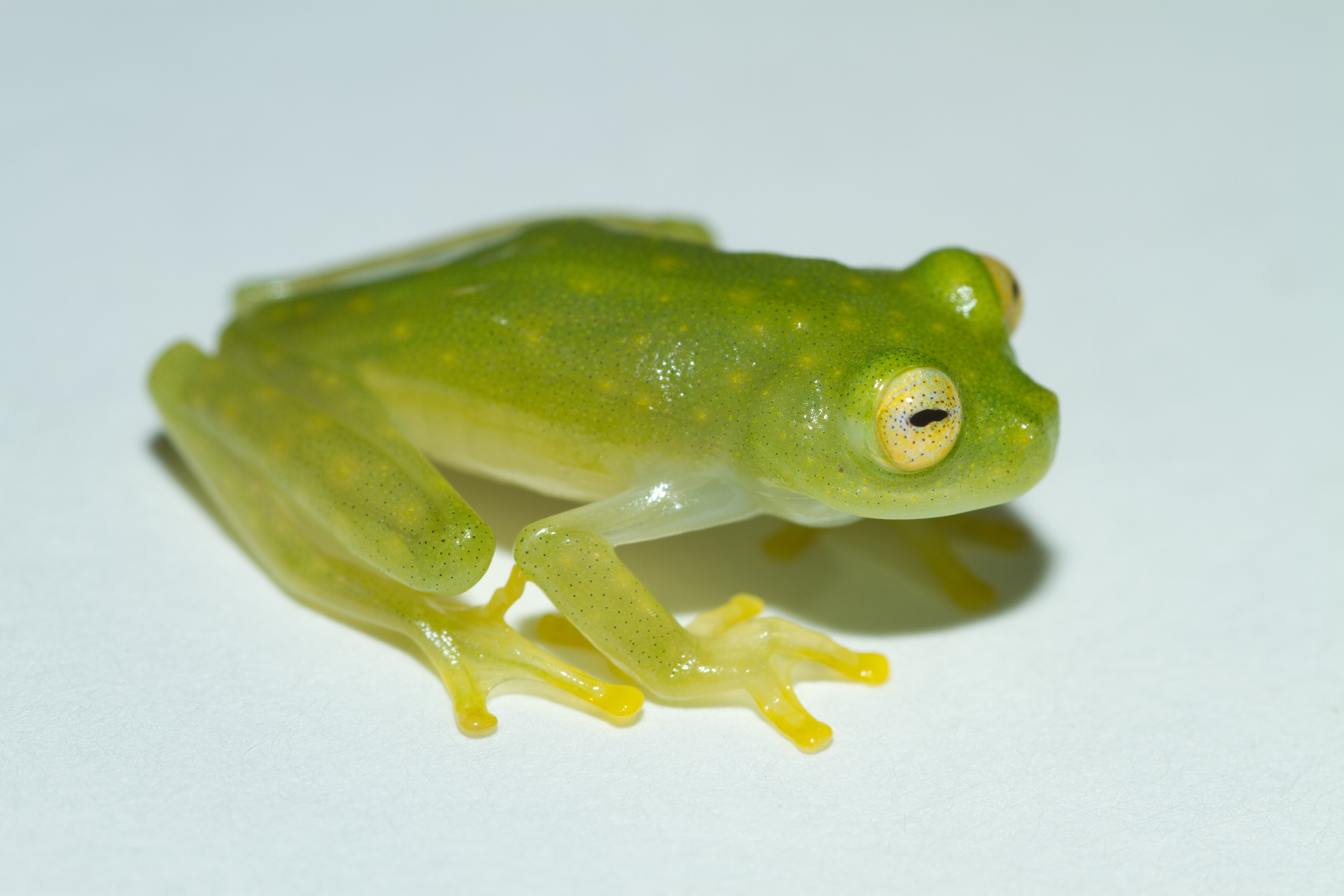 Hyalinobatrachium colymbiphyllum (Taylor, 1949) (Anura: Centrolenidae)